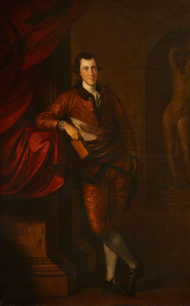 Portrait of Ambrose Eccles (c.1736–1809), Irish literary scholar.